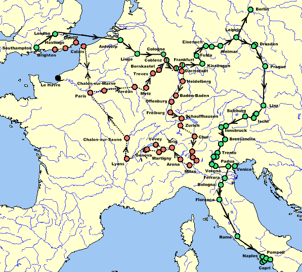 Map of Mary Shelley and her son Percy Florence Shelley's travels in 1840 and 1842–1843, taken from The Novels and Selected Works of Mary Shelley. Vol. 8. Ed. Jeanne Moskal. London: William Pickering, 1996, pg. 58–59. The red dots and dotted line indicate the 1840 trip; the green dots and solid line indicate the 1842–43 trip; dual-colored dots indicate places visited on both trips; black dots indicate places not visited but helpful for the reader.